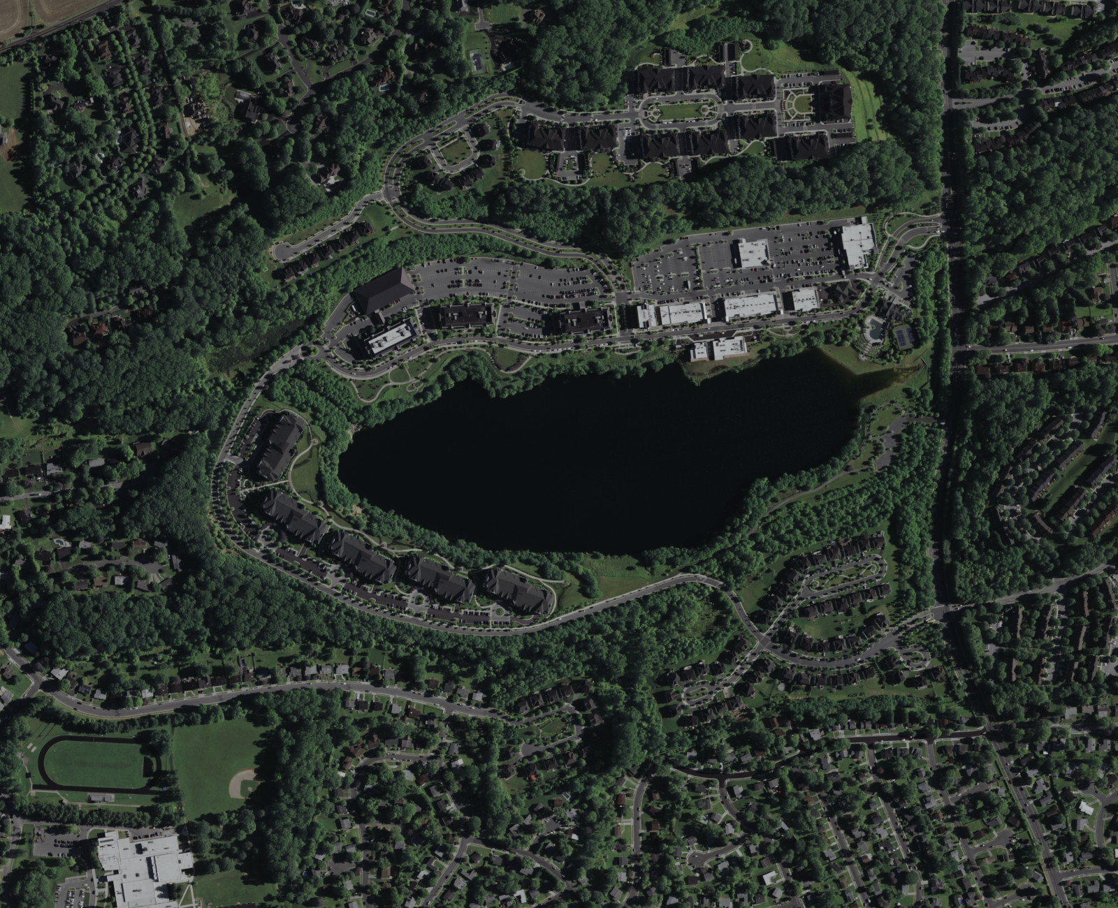 Quarry Lake, formerly the McMahon Quarry, Baltimore County, Maryland. m 3907635 sw 18 1 20170609 is the USGS image number.